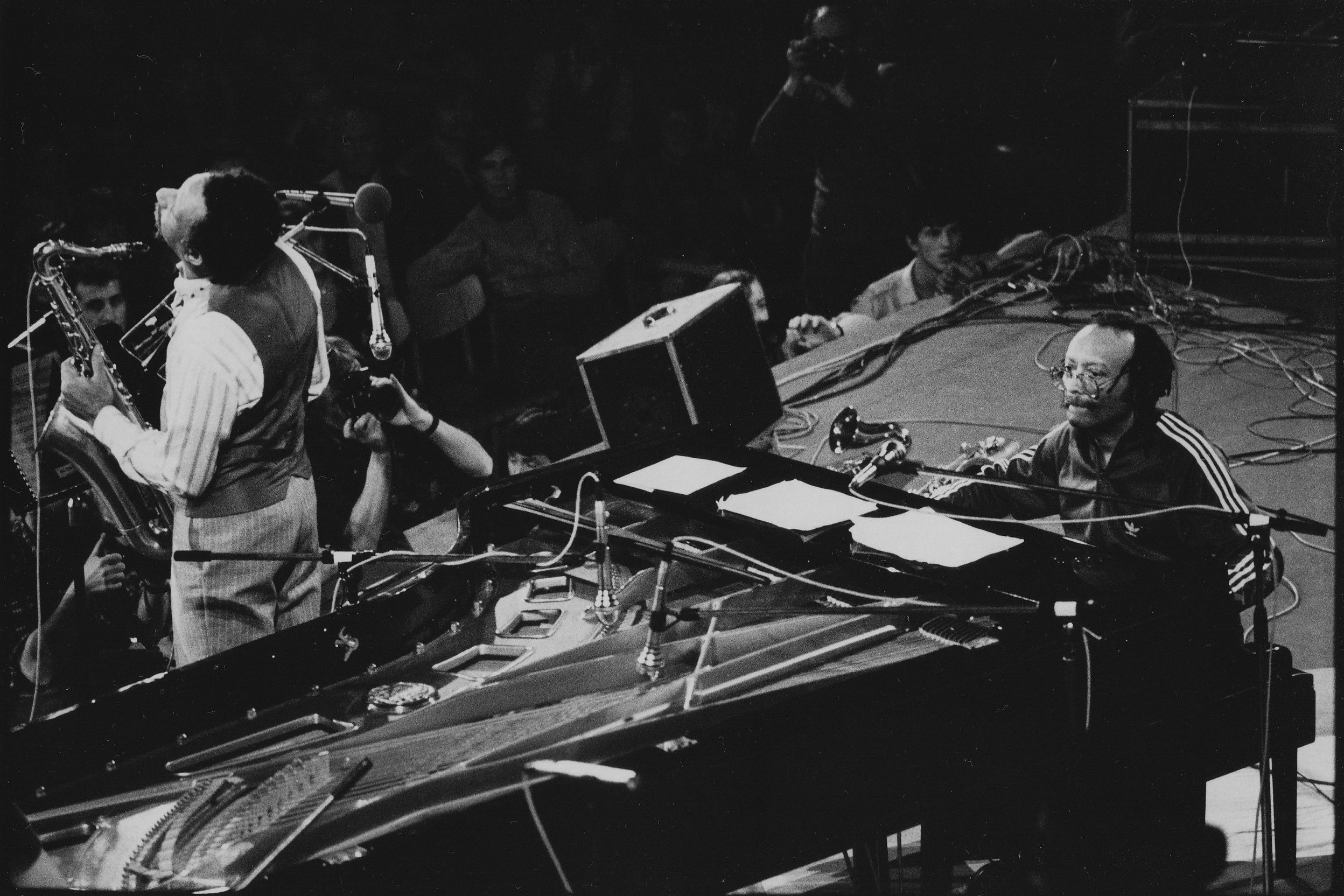 Cecil Taylor, International Jazz Festival, Prague, Lucerna Music Hall, 18 October 1984